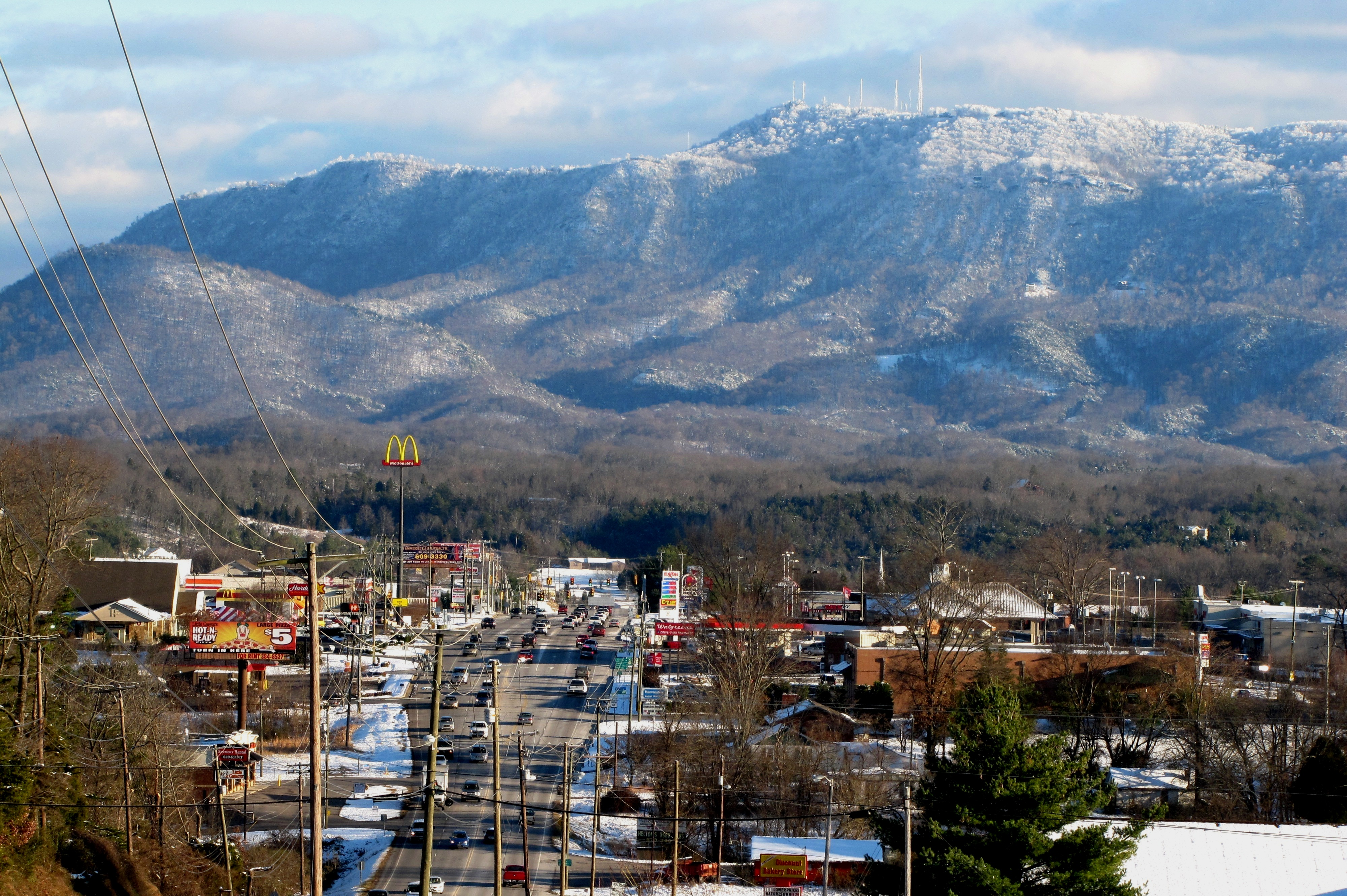 Chapman Highway (US-441) traversing Seymour, Tennessee, USA, with Bluff Mountain (part of the Foothills of the Great Smoky Mountains) rising in the distance. The towers toward the top-center stand atop the Bluff summit known as "Greentop," which rises to 3,069ft./935m.